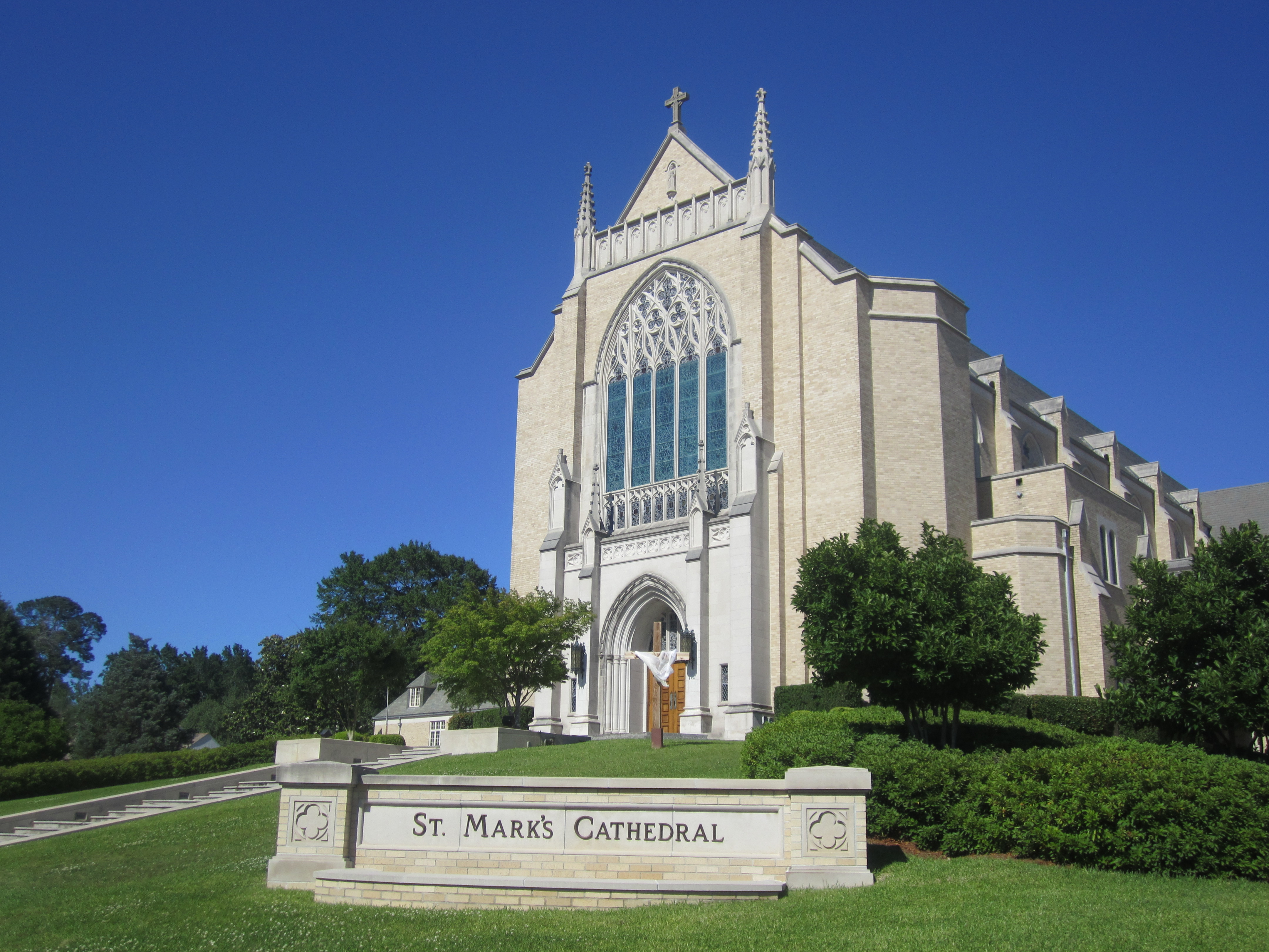 I took photo of St. Marks (Episcopal) Cathedral in Shreveport, LA, with Canon camera.